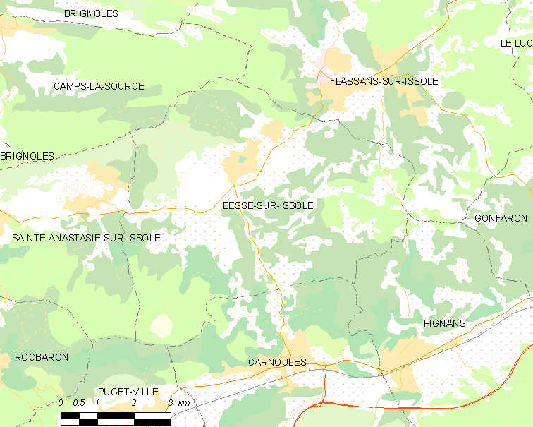 Map of French municipality Besse-sur-Issole